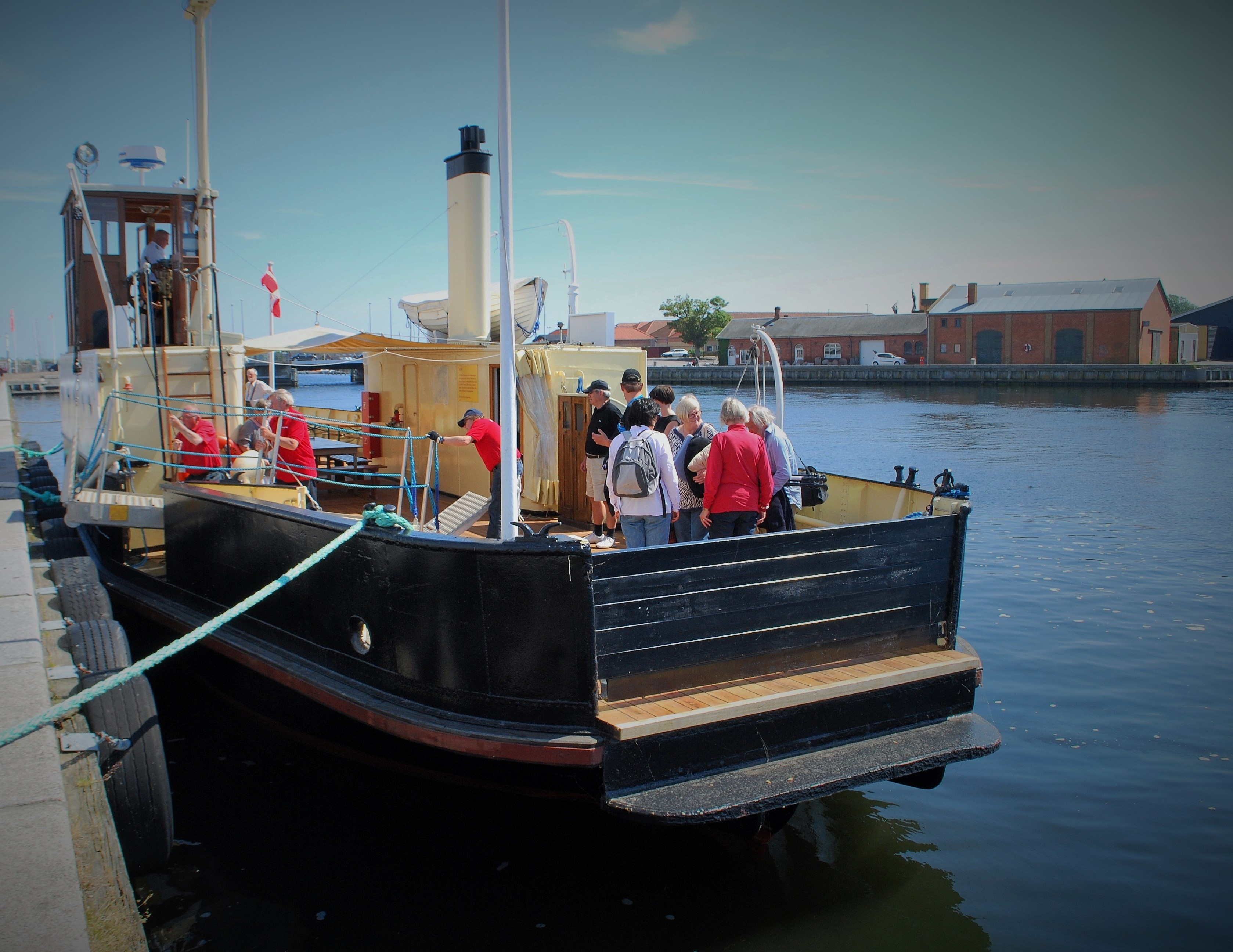 The ferry Møn in Stege, Denmark